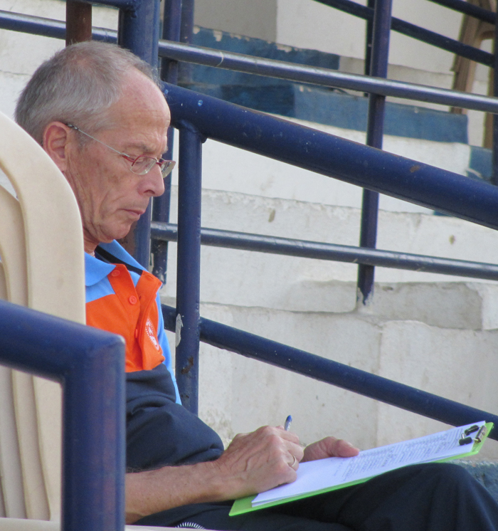 Robert Baan (born 1 April 1943) is a Dutch football coach, appointed to the role of Technical Director for the Indian national team by the AIFF.He is currently appointed as the Technical Director of All India Football Federation.